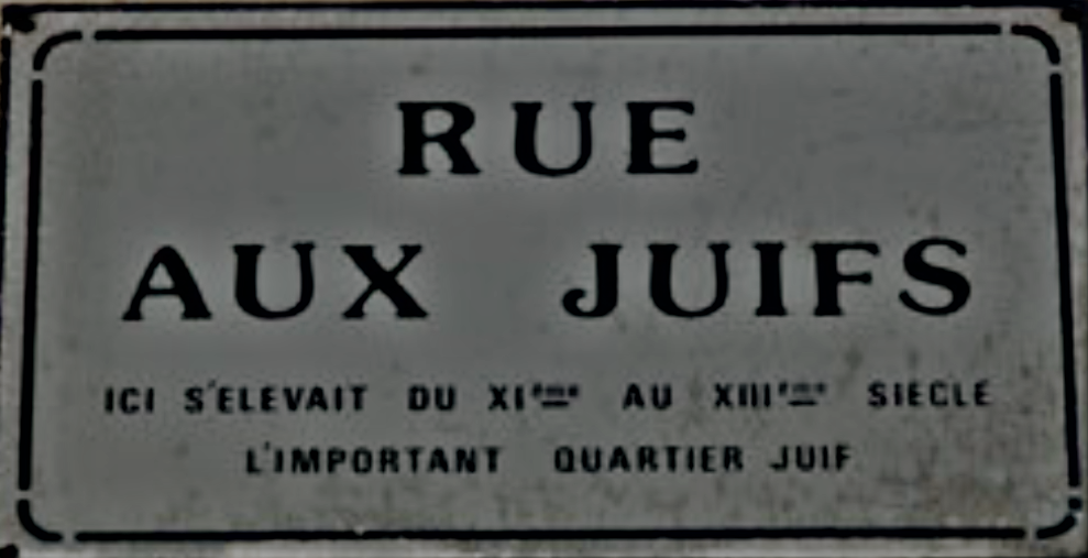 Street in Rouen, France